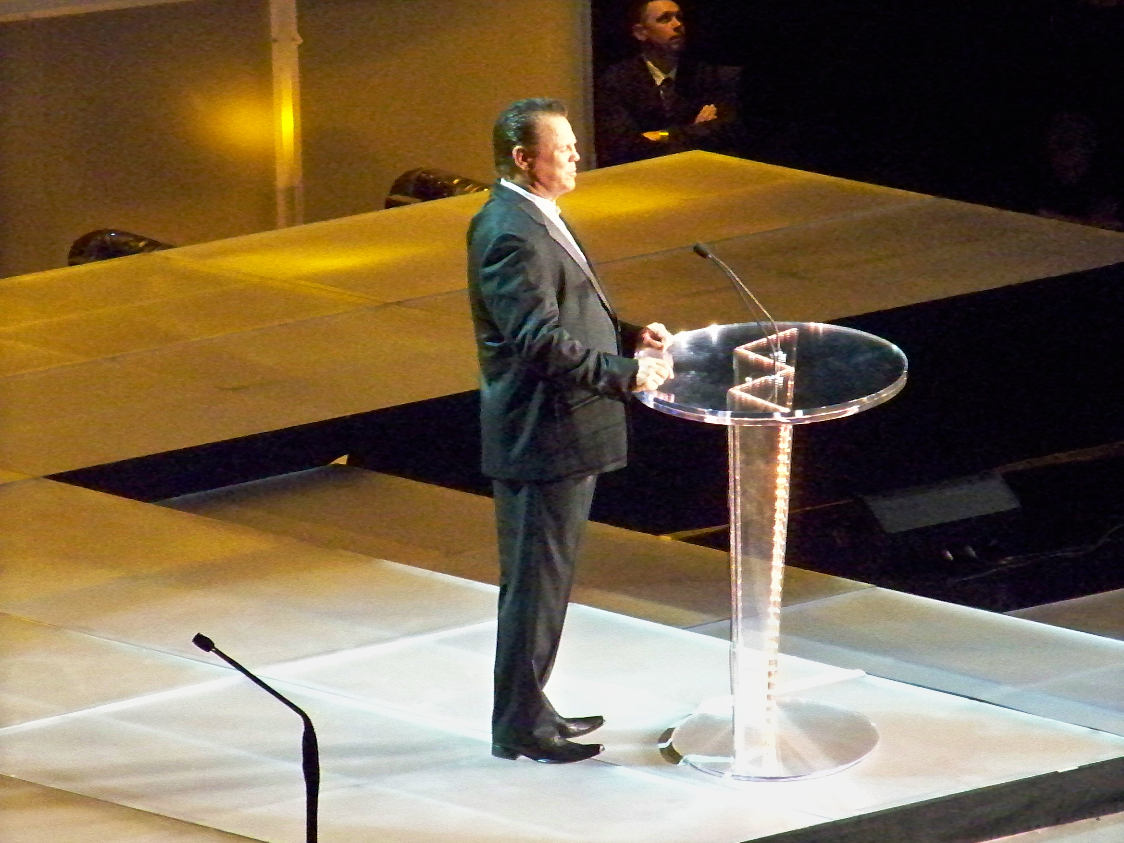 Jerry Lawler at the WWE Hall of Fame cermeony in April 2009 in Houston, Texas